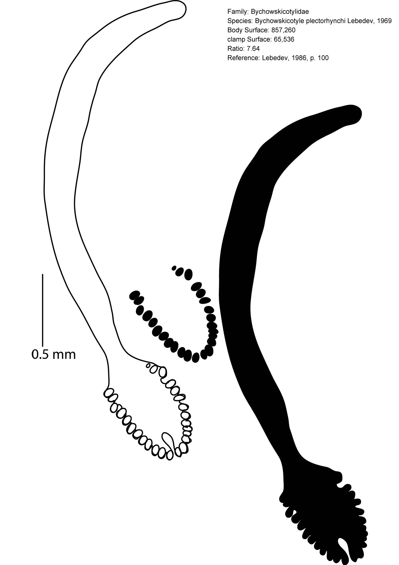 Bychowskicotyle plectorhynchi Lebedev, 1969 Cropped from: Supporting Information file S1 PDF of all figures and measurements of clamp and body surfaces. Total number of figures: 120.